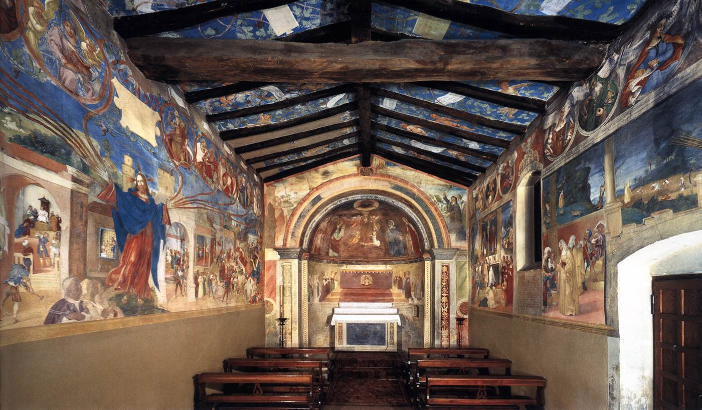 View of the oratory toward the altar